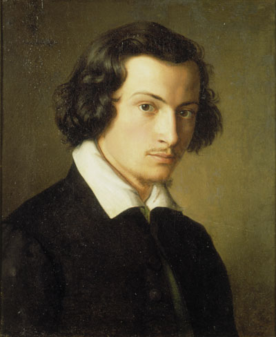 Philipp Veit, selfportrait, Landesmuseum, Mainz